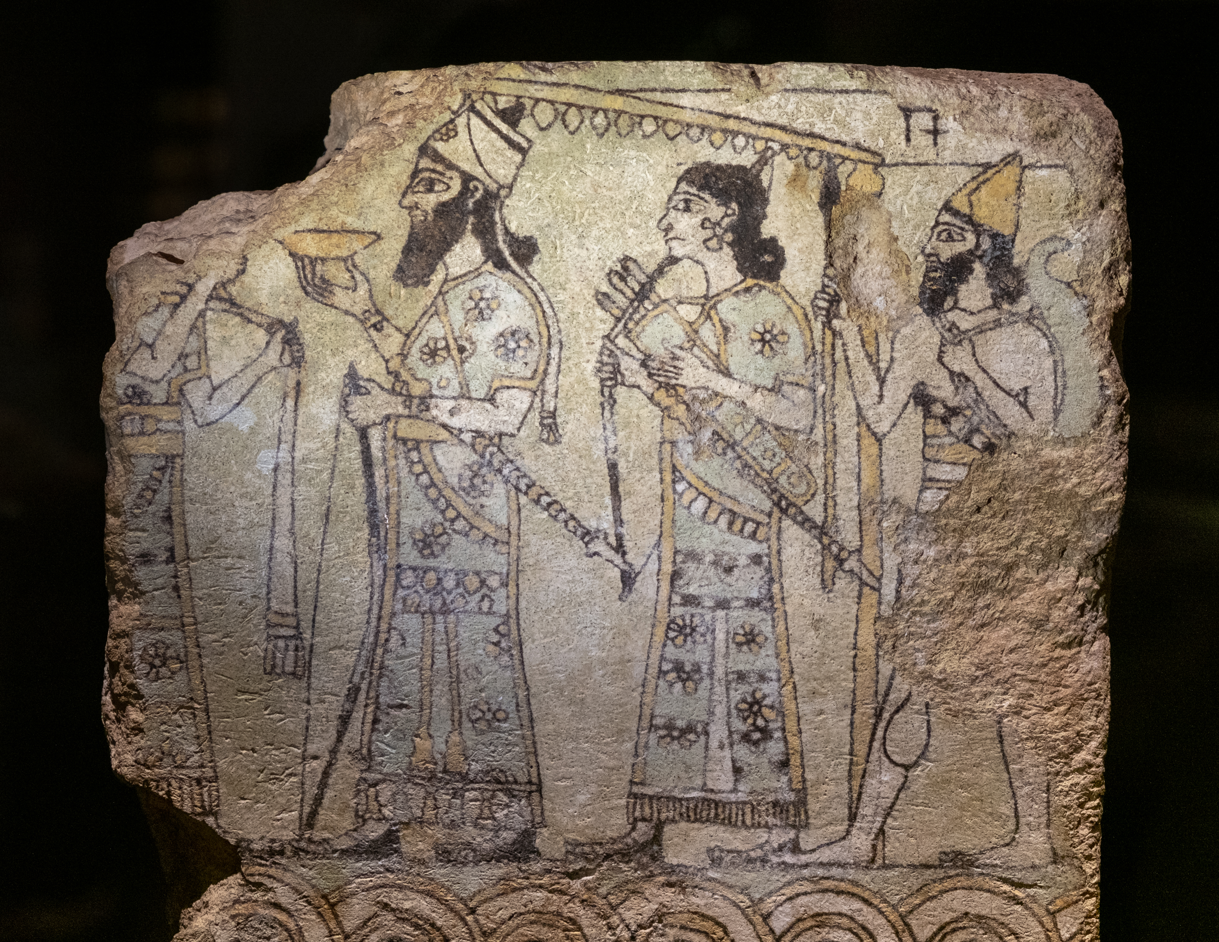 2018 Ashurbanipal - Tile British Museum, London